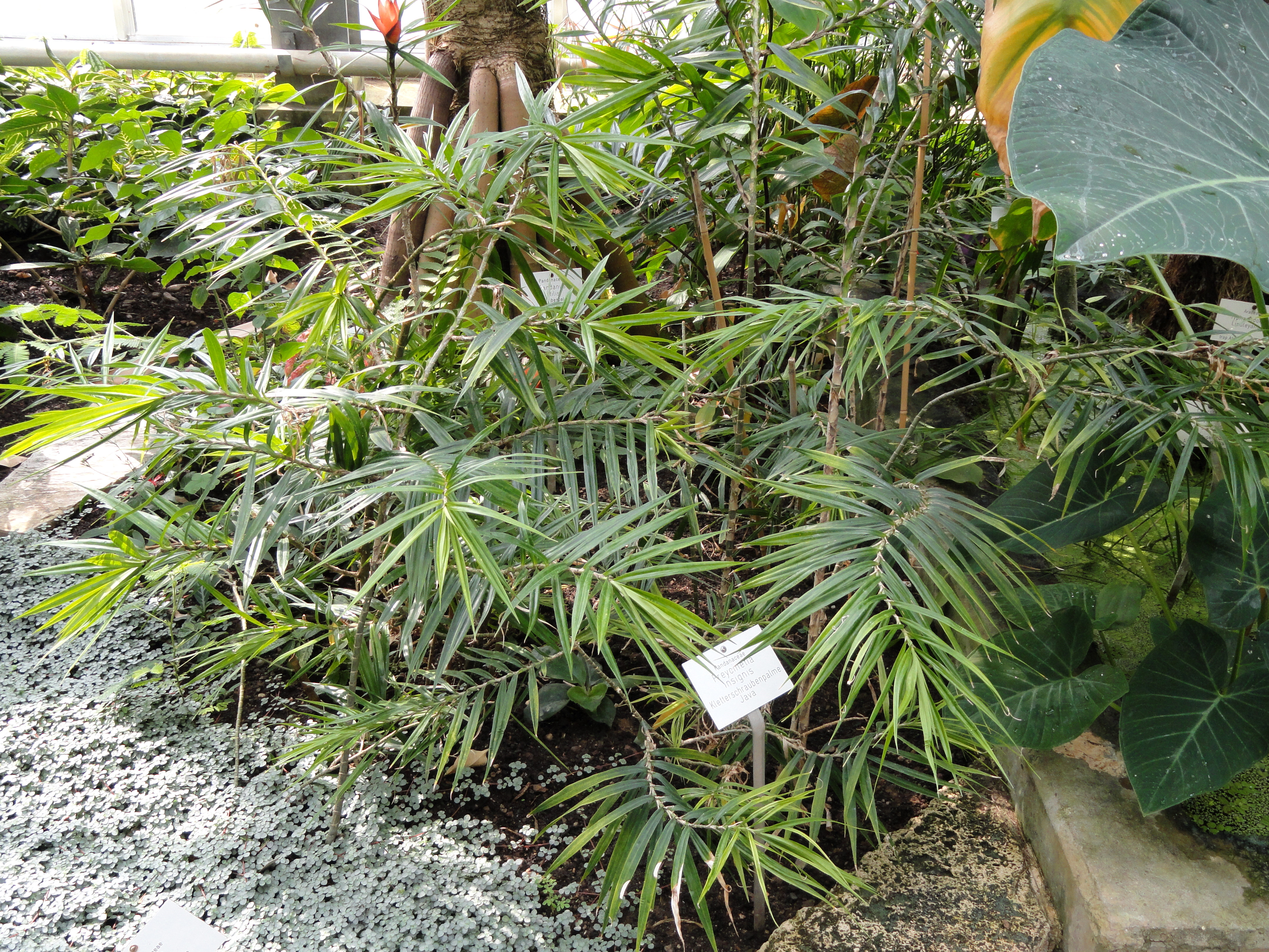 Freycinetia insignis specimen in the Botanischer Garten Freiburg, Freiburg im Breisgau, Baden-Württemberg, Germany.